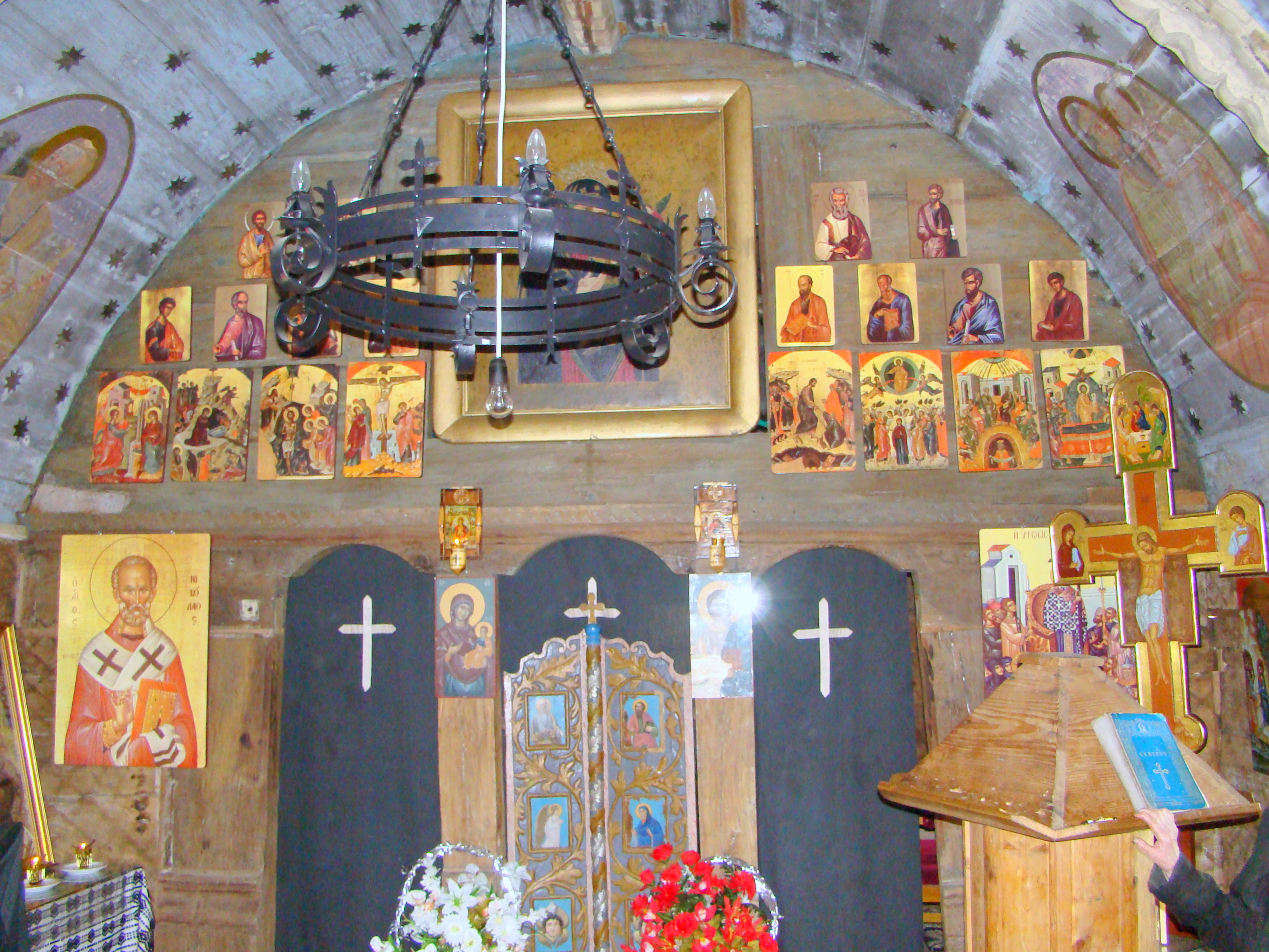 Wooden church in Valea Cășeielului, Cluj county, Romania